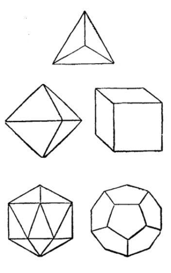 The 5 Platonic Solids from Edward Cresy, An Encyclopædia of Civil Engineering (1872) p. 755 (edited image).